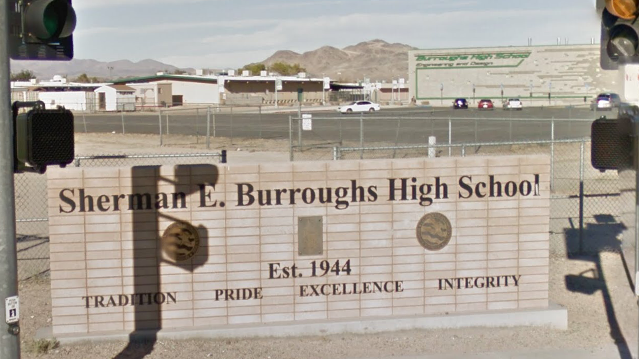 Welsome sign of Sherman E Burroughs High School